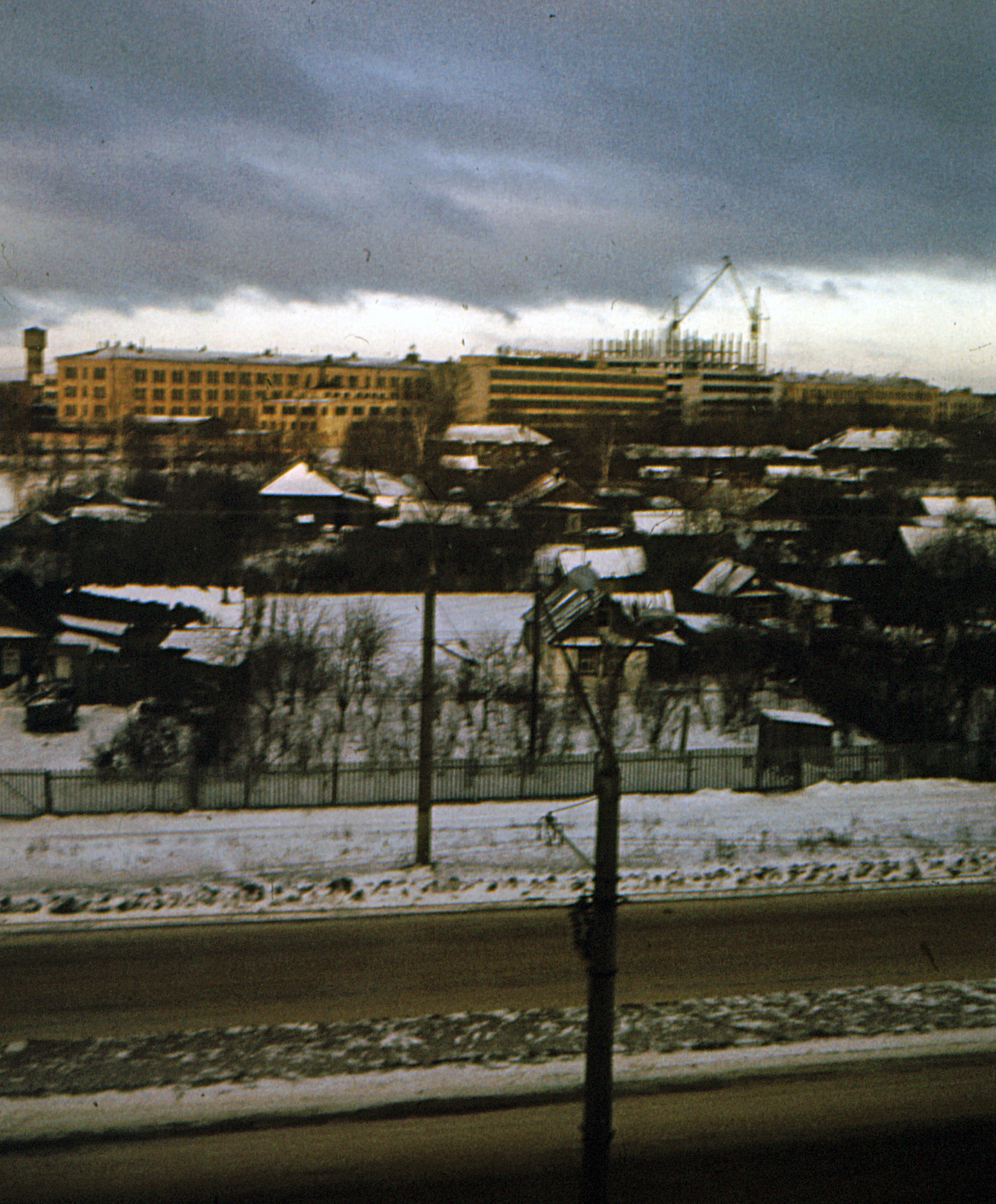 Cheboksary. Ending of Prospekt Mira, 1987